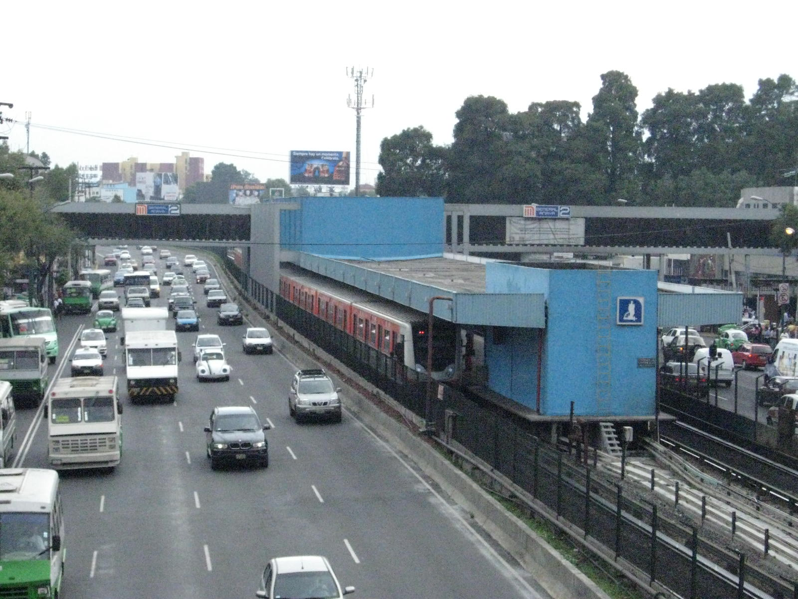 View of Metro General Anaya